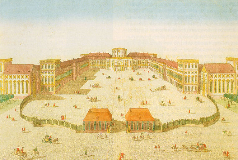 Old view of Mannheim castle, Germany